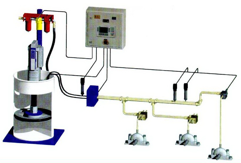 This picture shows a Dual Line Parallel Automatic Lubrication System from Lincoln Industrial Corporation